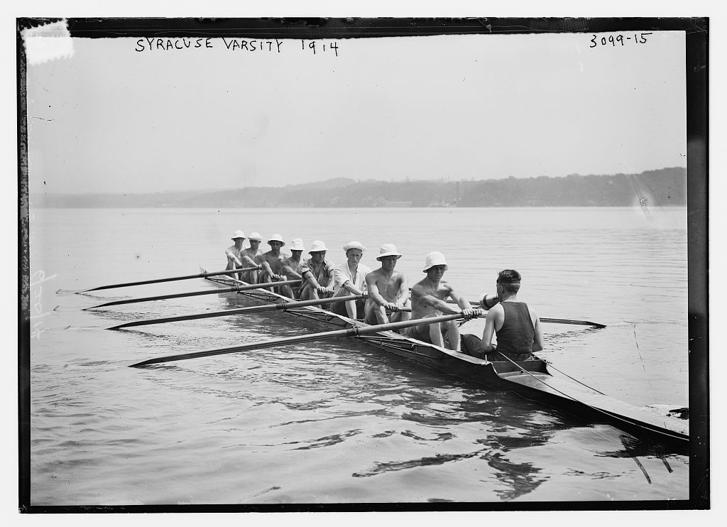 Bain News Service,, publisher. Syracuse Varsity [between ca. 1910 and ca. 1915] 1 negative : glass ; 5 x 7 in. or smaller. Notes: Title from unverified data provided by the Bain News Service on the negatives or caption cards. Forms part of: George Grantham Bain Collection (Library of Congress). Format: Glass negatives. Repository: Library of Congress, Prints and Photographs Division, Washington, D.C. 20540 USA, General information about the Bain Collection is available at Persistent URL: Call Number: LC-B2- 3099-15